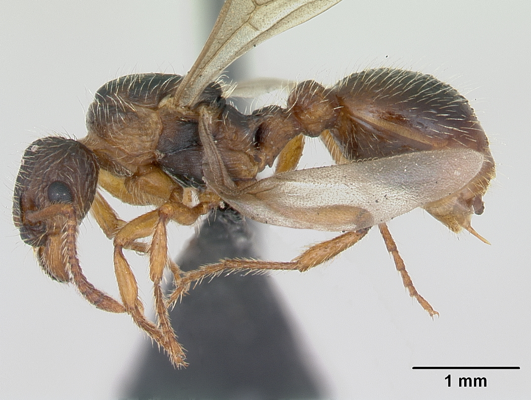 Profile view of ant Myrmica hirsuta specimen casent0172757.